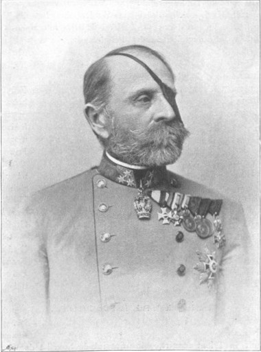 Photo of Johann von Appel (1826-1906), Austrian general and a military administrator of Bosnia.